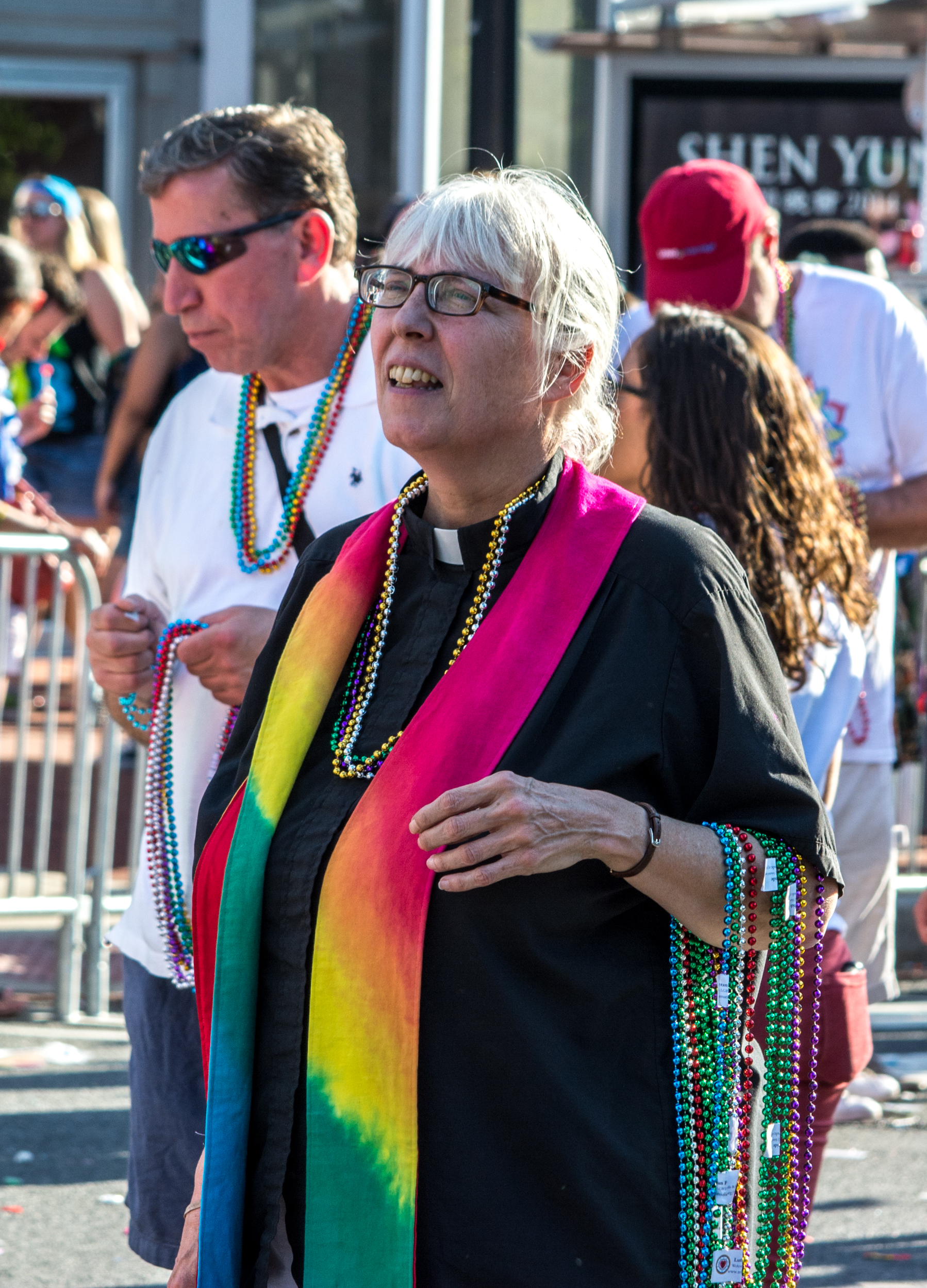 D.C. Gay Pride 2014